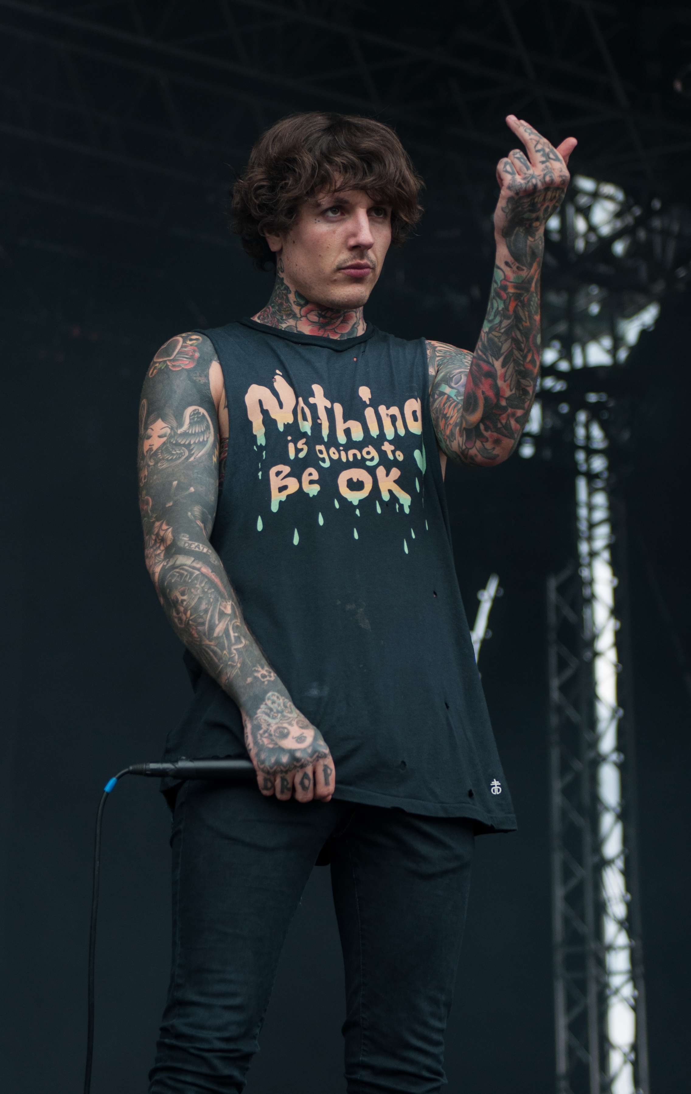 Bring Me the Horizon at Vainstream Rockfest 2014